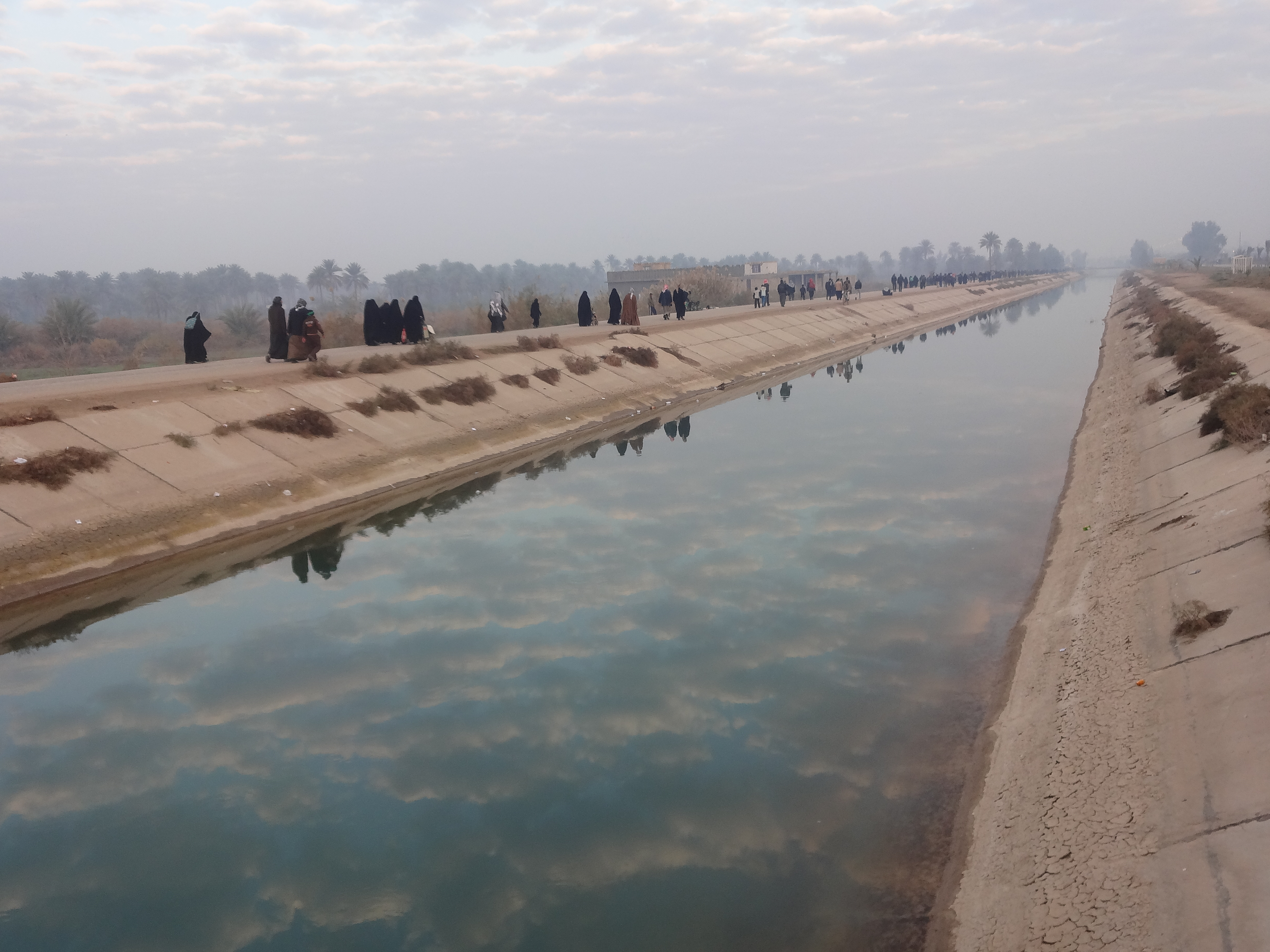 Some Shia Muslims walking in the banks of the Euphrates river in Hindiya, Iraq in their way to Karbala.